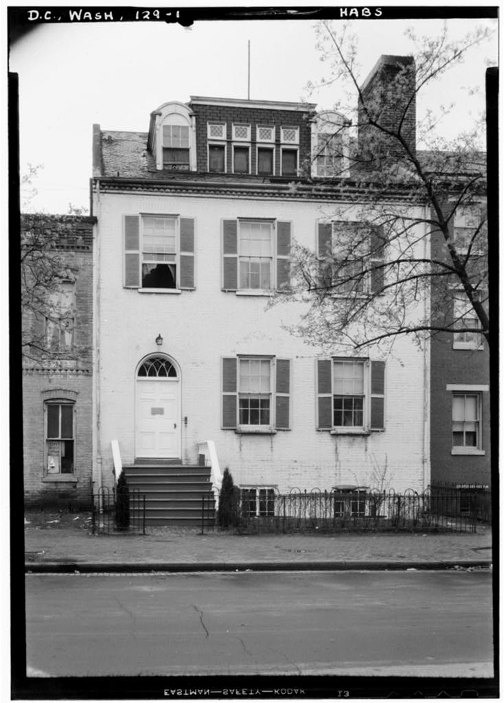 VIEW FROM NORTHEAST (front)